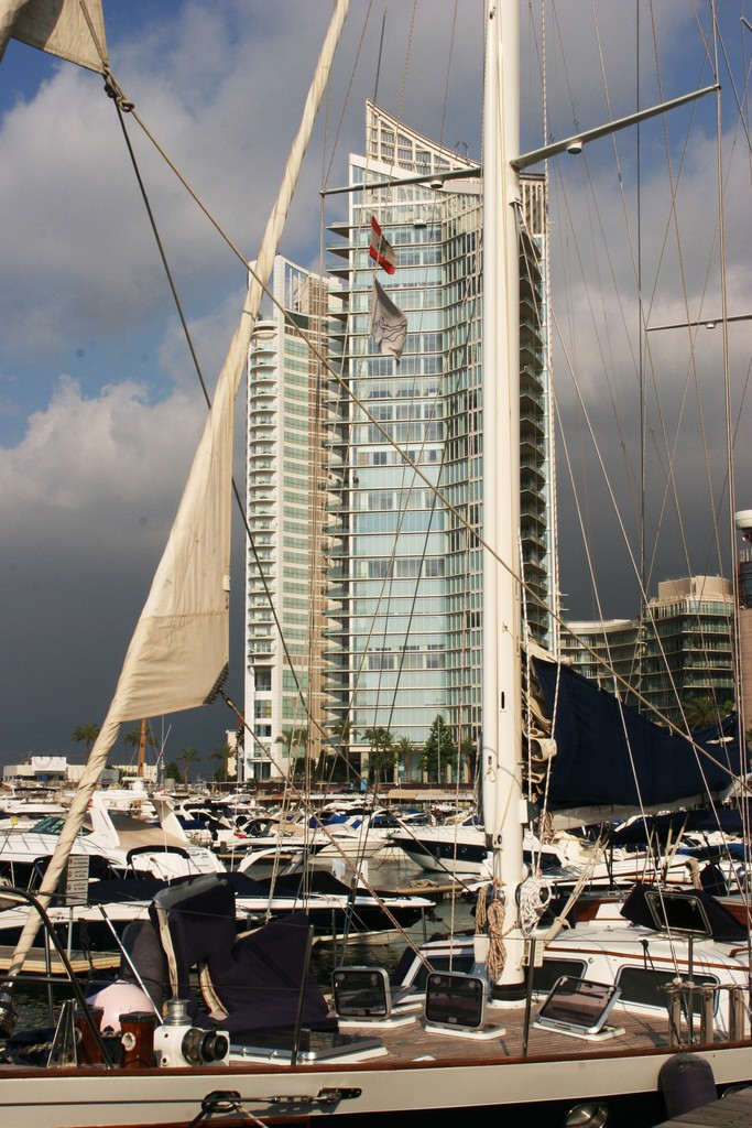 Beirut Downtown Seafront